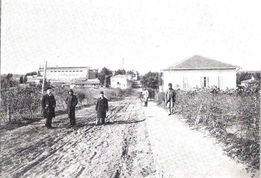 The picture are from old book (that was published in 1899), some of the picture are fro 1899, some are even older: This work or image is now in the public domain because its term of copyright has expired in Israel. According to Israel's copyright statute from 2007 (translation), a work is released to the public domain on 1 January of the 71st year after the author's death (paragraph 38 of the 2007 statute) with the following exceptions: A photograph taken on 24 May 2008 or earlier — the old British Mandate act applies, i.e. on 1 January of the 51st year after the creation of the photograph (paragraph 78(i) of the 2007 statute, and paragraph 21 of the old British Mandate act). If the copyrights are owned by the State, not acquired from a private person, and there is no special agreement between the State and the author — on 1 January of the 51st year after the creation of the work (paragraphs 36 and 42 in the 2007 statute). See also category: PD Israel & British Mandate. For the scan and the the crop: The name of the book (in hebrew) is: "מראה ארץ ישראל והמושבות" by (in hebrew): "ישעיהו ראפאלוביטש ושותפו משה אליהו זאכס" A street in Rishon LeZion